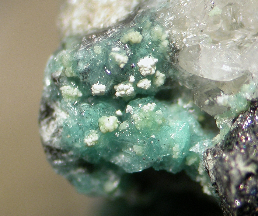 Bottinoite Locality: Dörnberg Mine, Ramsbeck, Meschede, Sauerland, North Rhine-Westphalia, Germany Field of view 4 mm. Specimen and photo Leon Hupperichs.